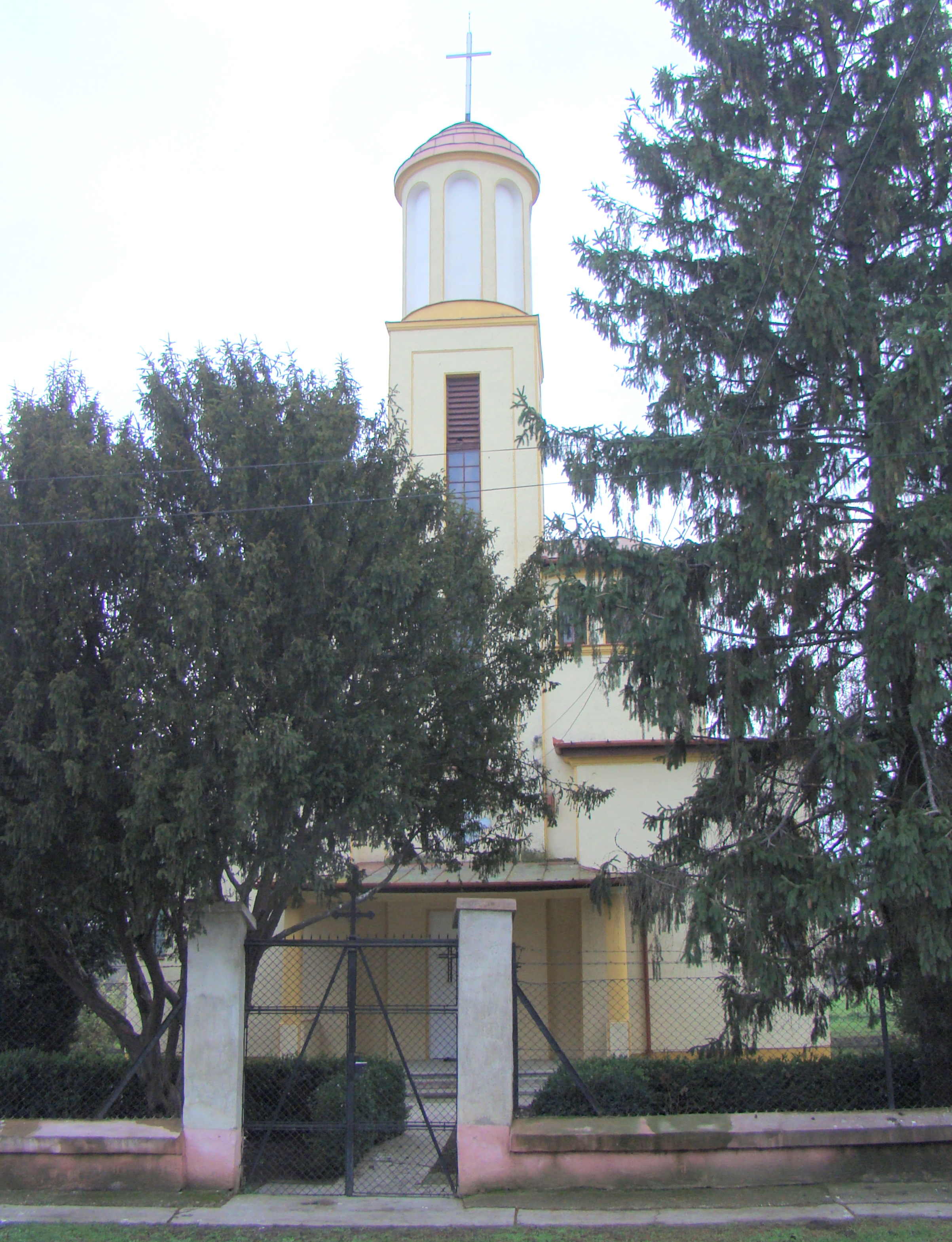 Roman Catholic church in Diosig, Bihor county, Romania